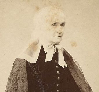 Closeup of CDV image of Lidian Jackson Emerson, circa 1880s.